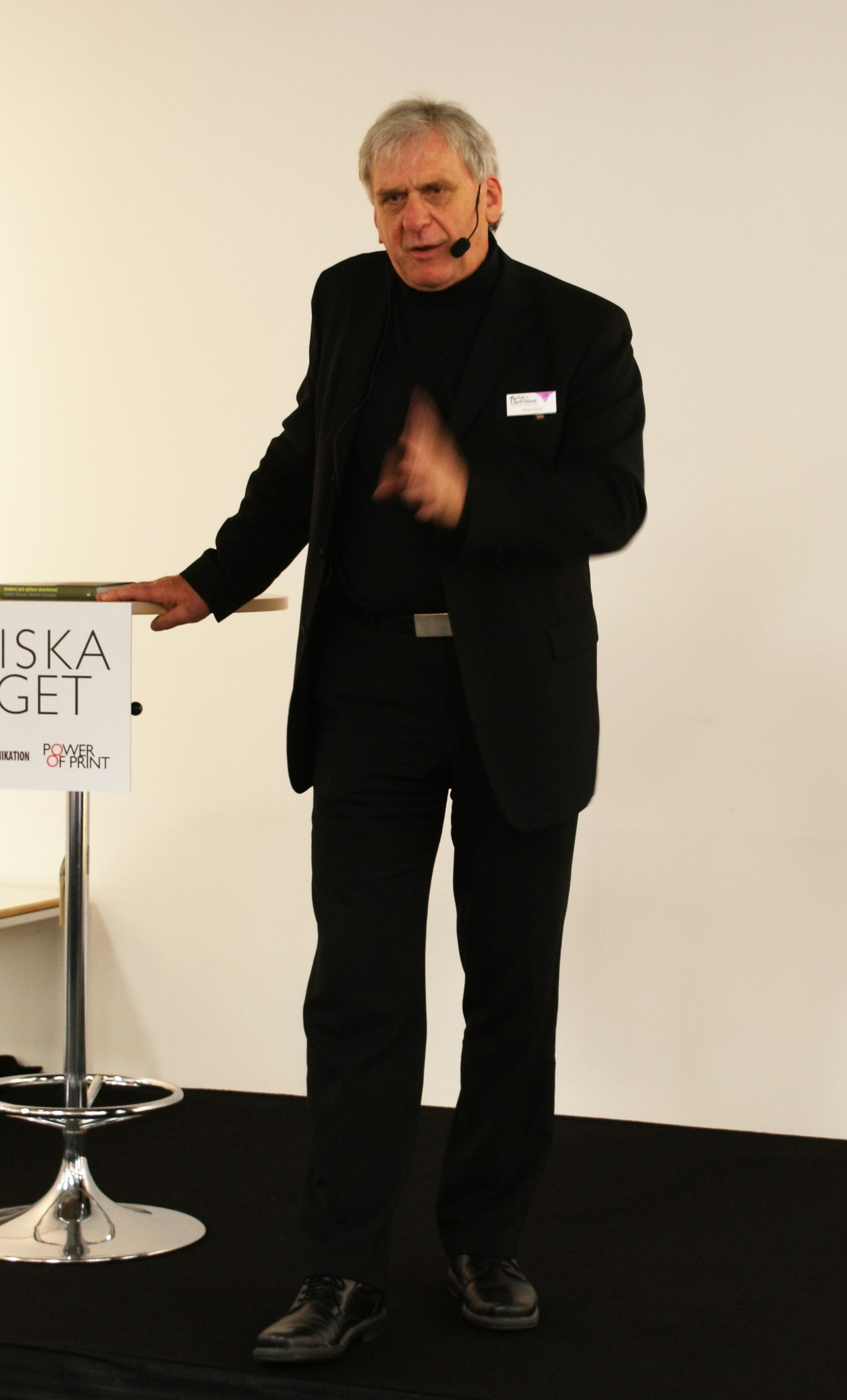 Stefan Edman, Swedish biologist and writer.